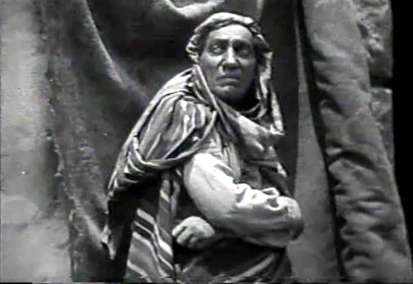 Sheldon Lewis as Achmet Zek in Tarzan the Tiger (1929).